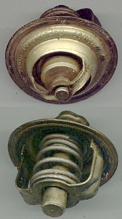 Internal combustion piston engine thermostat.